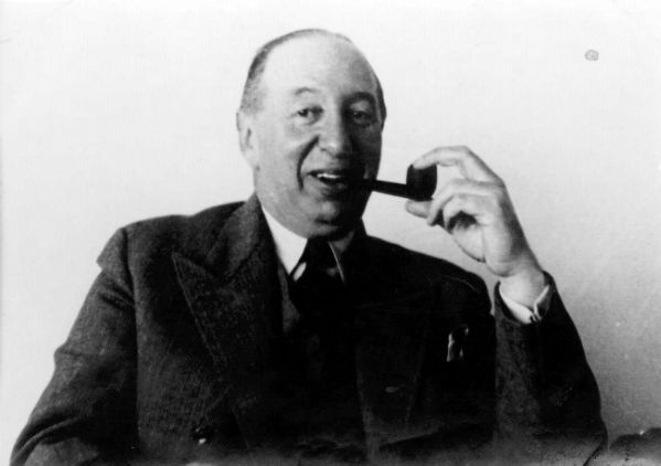 Siegfried van Vriesland (1886-1939), member of the Zionist Executive Council, Israeli manager and the General Consul of the Netherlands in Palestine